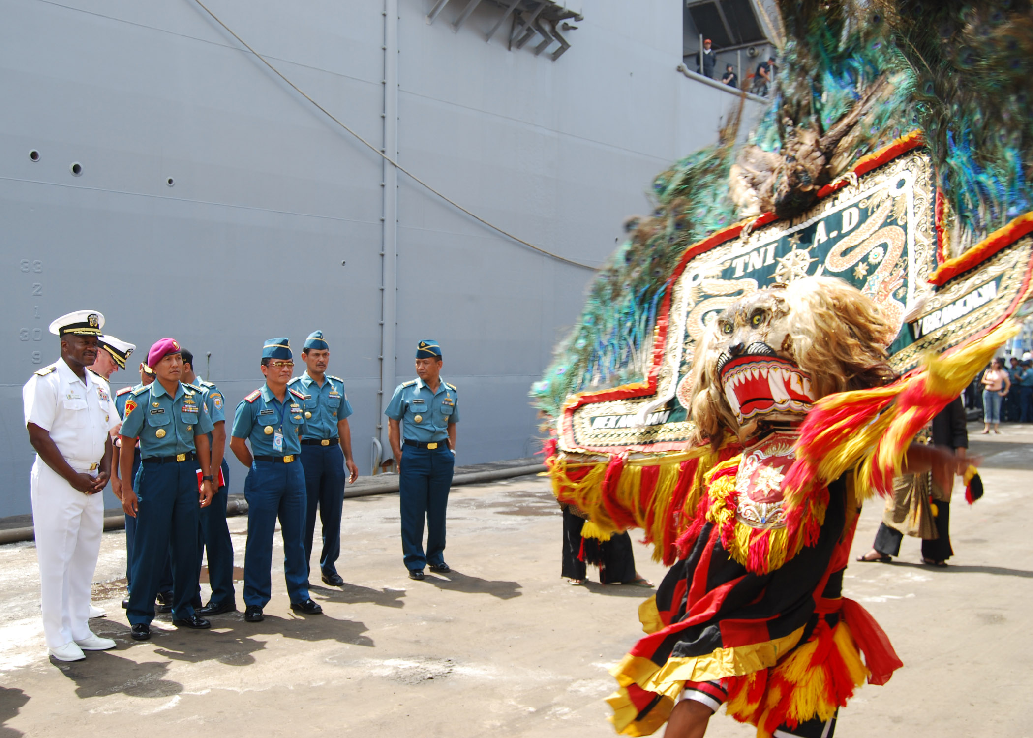 SURABAYA, Indonesia (May 26, 2010) Capt. Rich Clemmons, left, Commodore of Destroyer Squadron 31, stands with officers of the Indonesian navy as they watch dancers perform a traditional welcome for the amphibious dock landing ship USS Tortuga (LSD 46). Tortuga is participating in Naval Engagement Activity 2010. The exercise is part of the Cooperation Afloat Readiness and Training (CARAT) series of bilateral exercises held annually in Southeast Asia to strengthen relationships and enhance force readiness. (U.S. Navy photo by Lt. Mike Morley/Released)